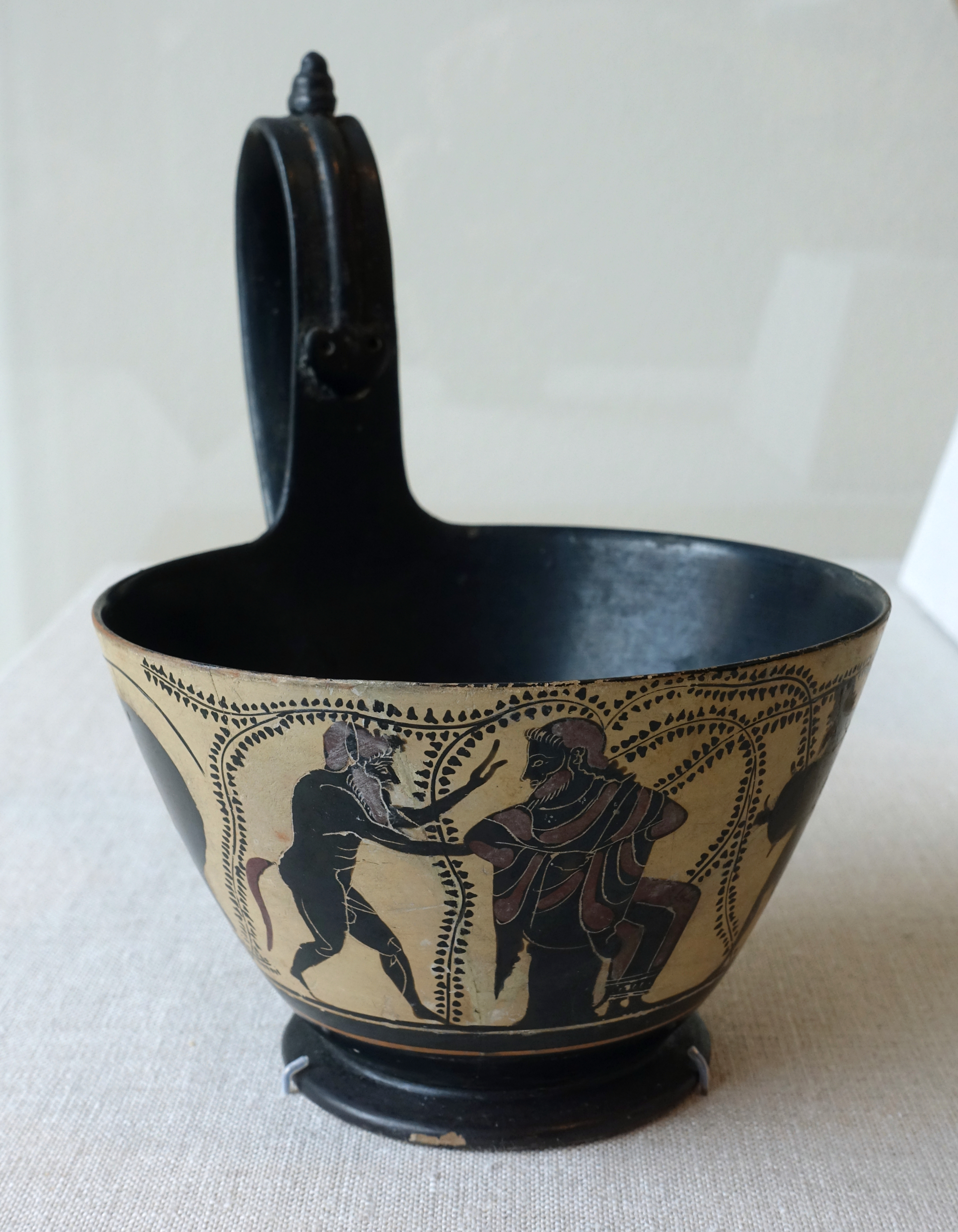 Exhibit in the Blanton Museum of Art - Austin, Texas, USA. This work is old enough so that it is in the public domain.